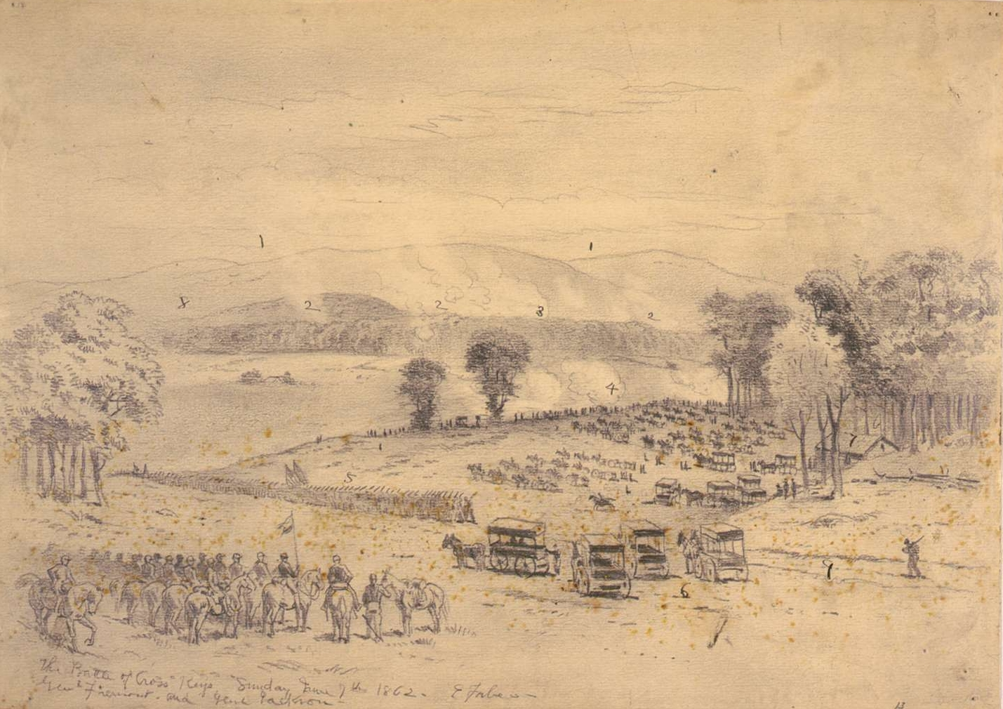 The battle of Cross Keys--Sunday June 7th 1862--Genl. Fremont and Genl. Jackson.